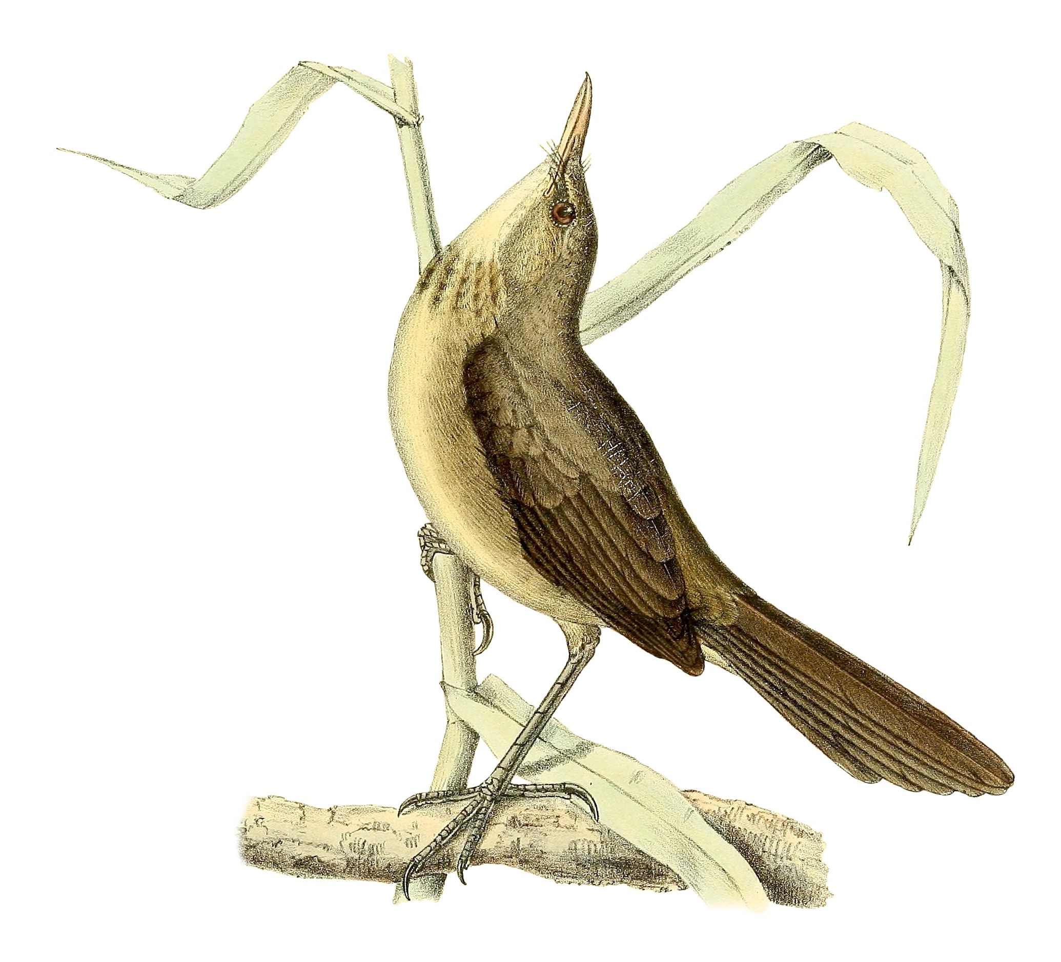 Calamodyta newtonii = Acrocephalus newtoni (Madagascar Swamp-warbler)